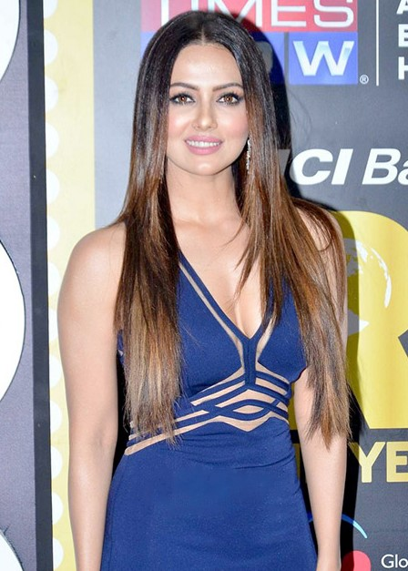 Sana Khan graces NRI Of The Year Awards.